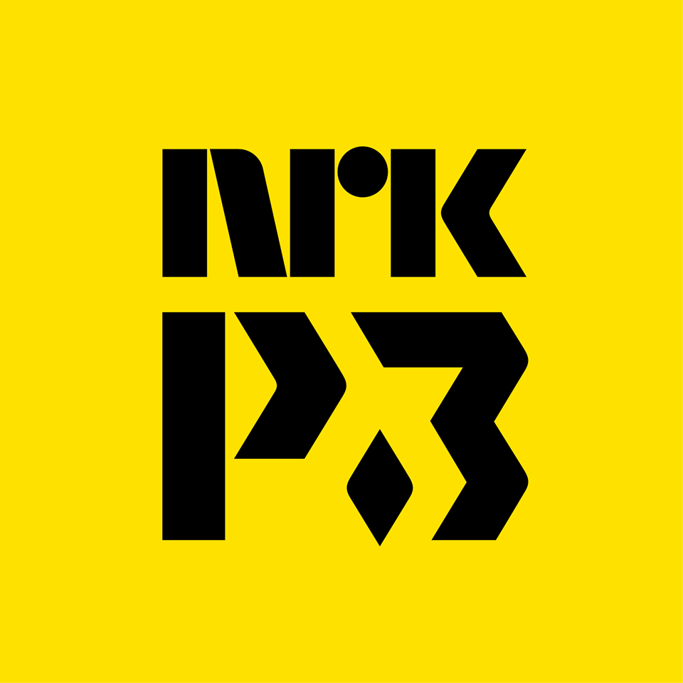 Logo of NRK P3